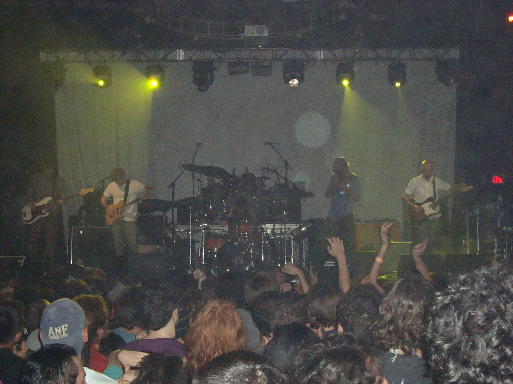 Circa Survive at Revolution Live